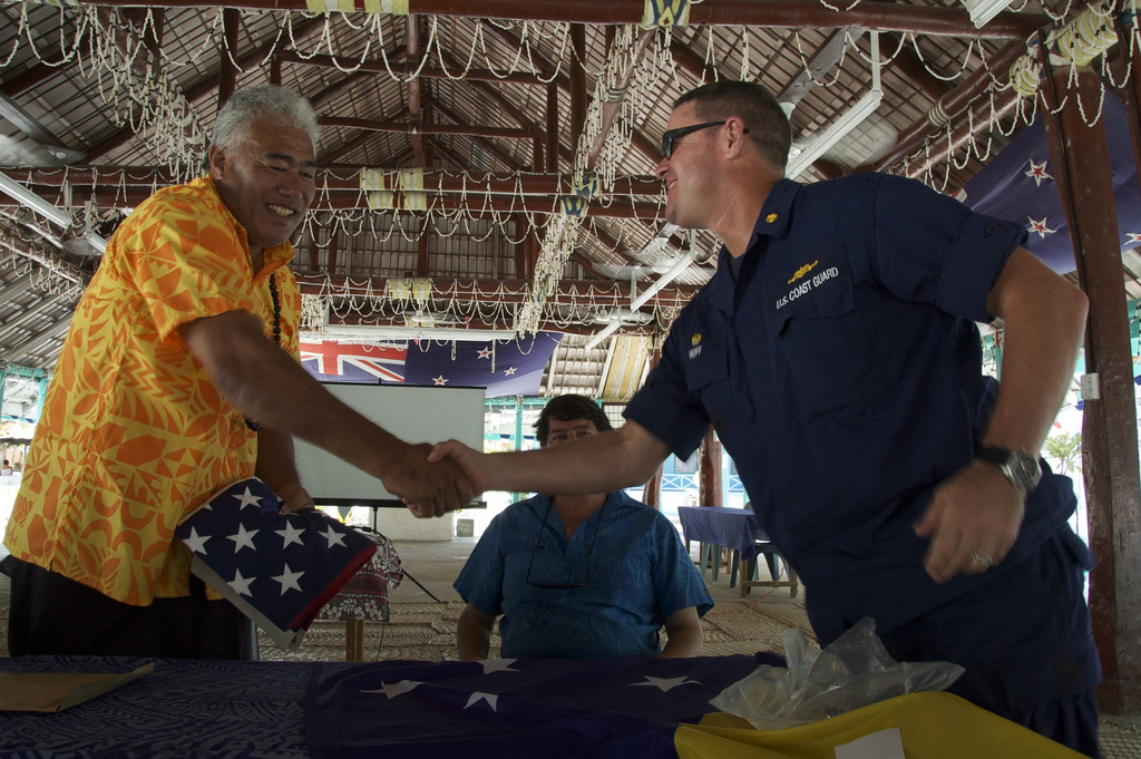 Foua Toloa, the Ulu O Tokelau or Head of Government of Tokelau, shakes hands with Lieutenant Commander Brian Huff of the United States Coast Guard. The US Coast Guard was in Tokelau to install a water desalination plant due to a drought.